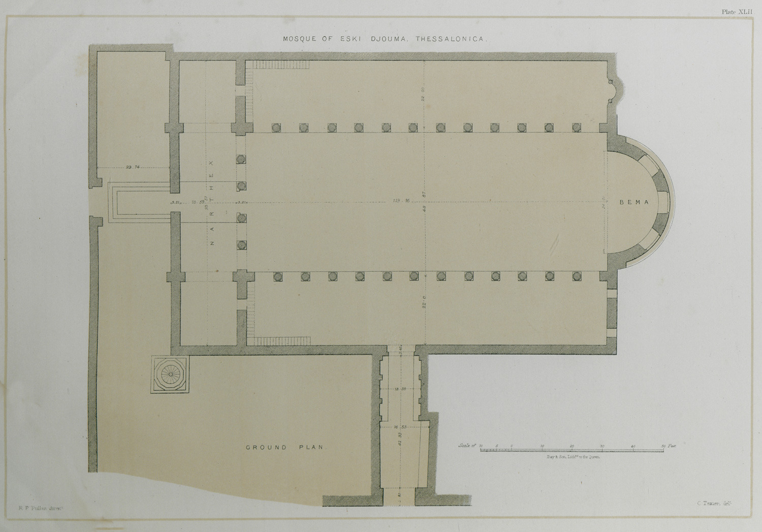 Félix Marie Charles Texier. Byzantine Arcitecture, illustrated by Examples of Edifices erected in the East during the earliest Ages of Christianity, R.Popplewell Pullan, London, Day & Son, 1864.